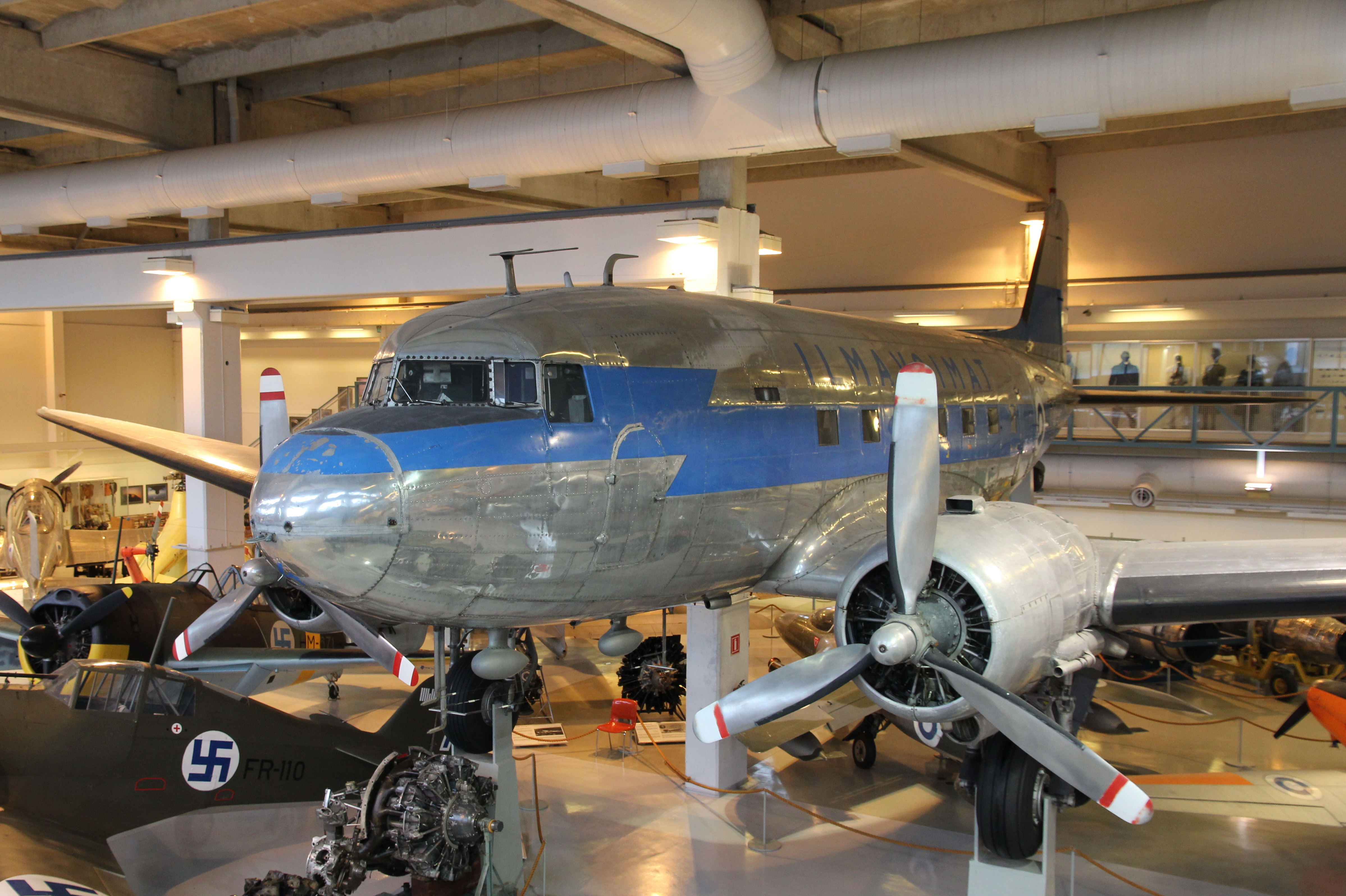 Douglas DC-3 (military registry DO-4, former civil OH-LCF) in the Aviation Museum of Central Finland.